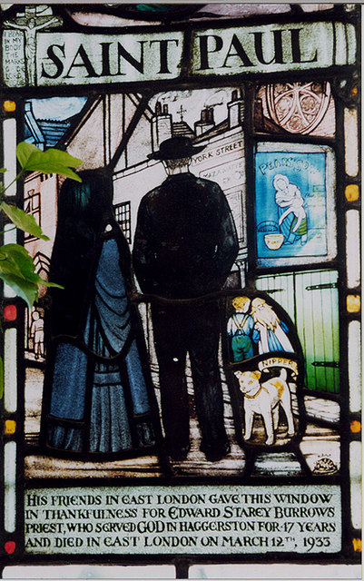 Everyday details in stained glass window (Haggerston). This is a detail from a window in the entrance of St Saviour's Priory, Haggerston. It is from one of a series of "Saint" windows originally at St Augustine's, Haggerston. The dog also appears in another window in the series, now at St Mary Magdelene, Munster Square, 1155271 and represents a dog that belonged to the parish priest at the time that the window was made.